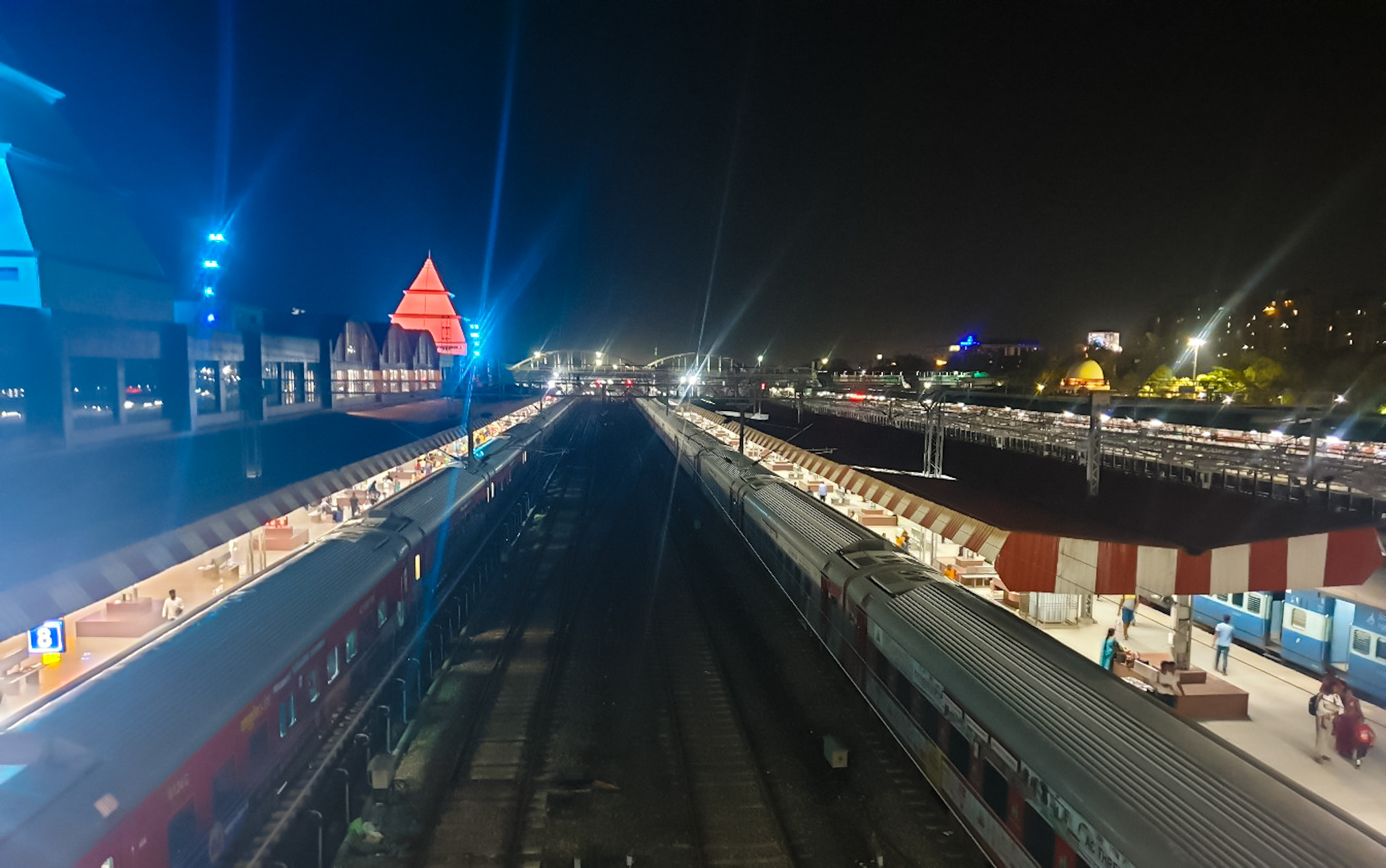 Manduadih Railway Station at night